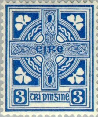 1923 definitive 3d denomination "Cross of Cong" postage stamp of Ireland